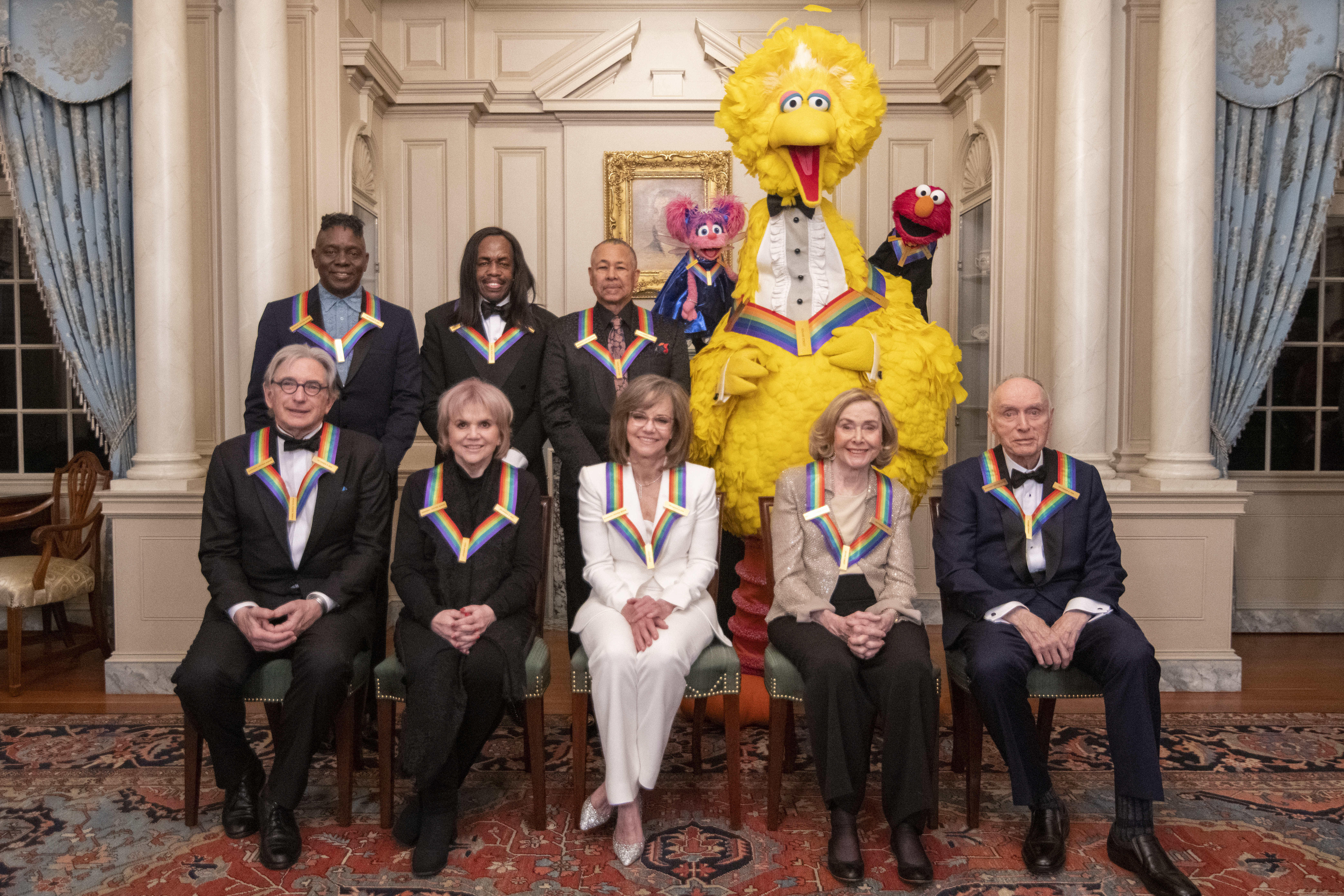 U.S. Secretary of State Michael R. Pompeo hosts the 2019 Kennedy Center Honors Awardees - Earth, Wind & Fire, Sally Field, Linda Ronstadt, Sesame Street, and Michael Tilson Thomas - for dinner at the U.S. Department of State, in Washington, DC, on December 7, 2019. [State Department photo by Freddie Everett/ Public Domain]